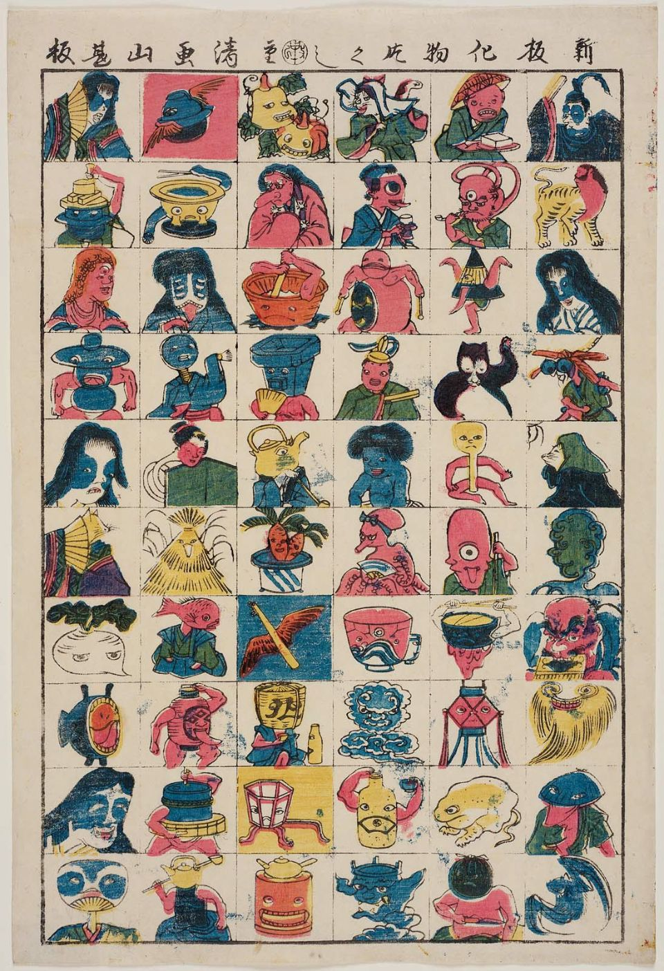 woodblock print: A New Collection of Monsters (Shinpan bakemono zukushi) [新板化物つくし]